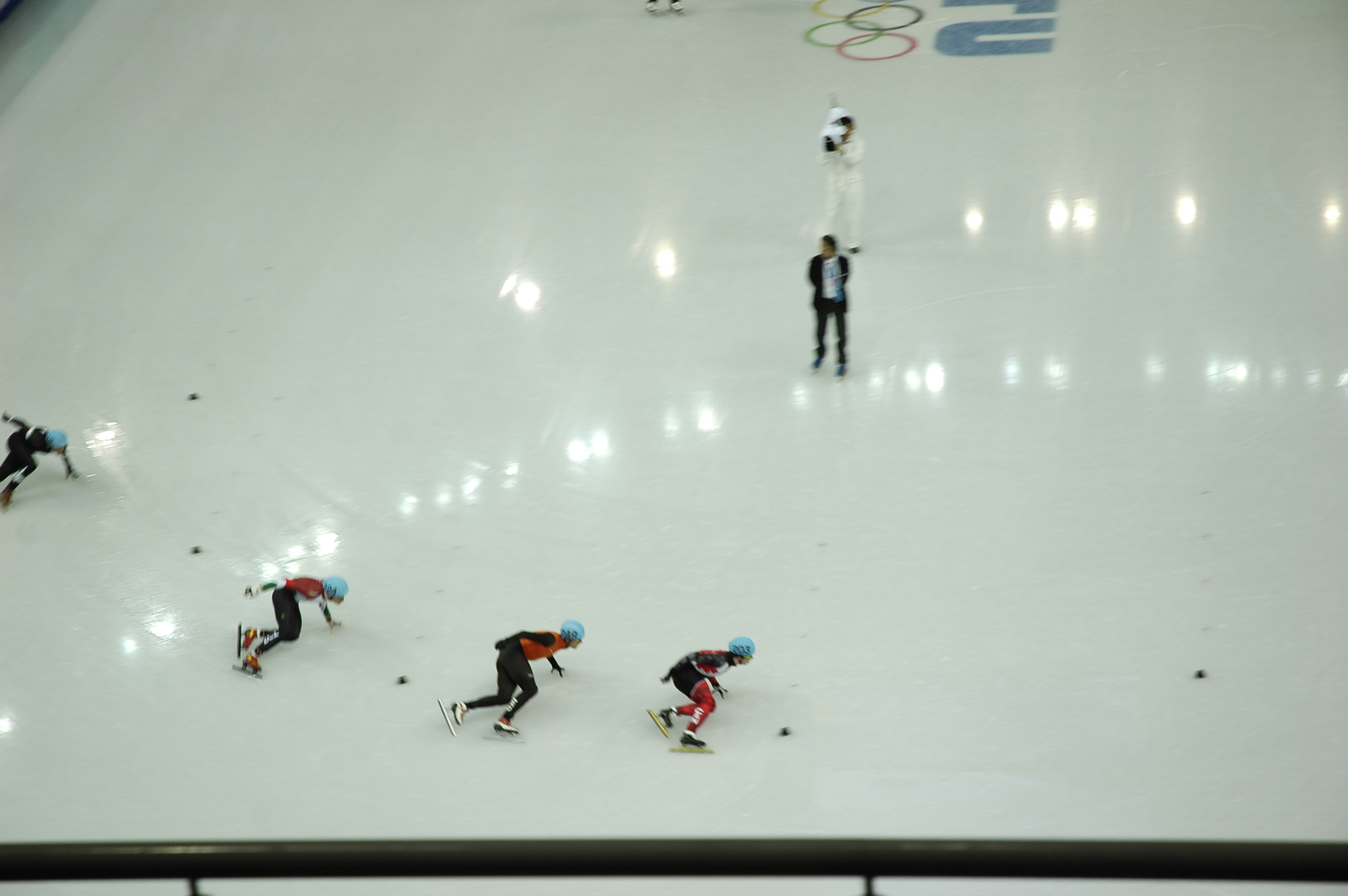 Men's 500m short track, 2014 Winter Olympics, heat 2 1 Charle Cournoyer Canada 41.180 Q 2 Freek van der Wart Netherlands 41.190 Q 3 Sándor Liu Shaolin Hungary 41.683 4 Anthony Lobello Italy 42.133